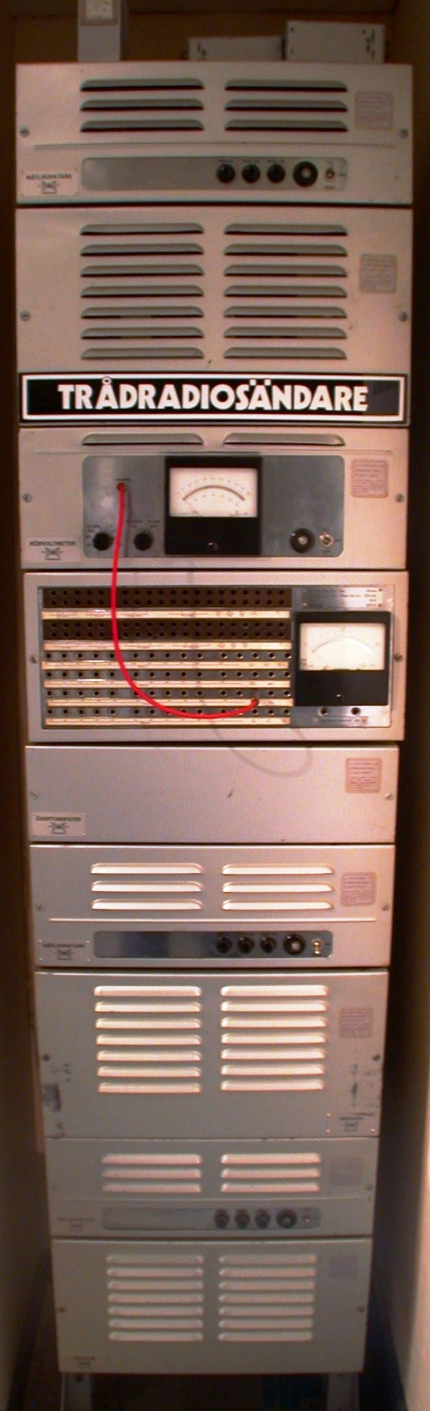 Swedish wire radio transmitter.